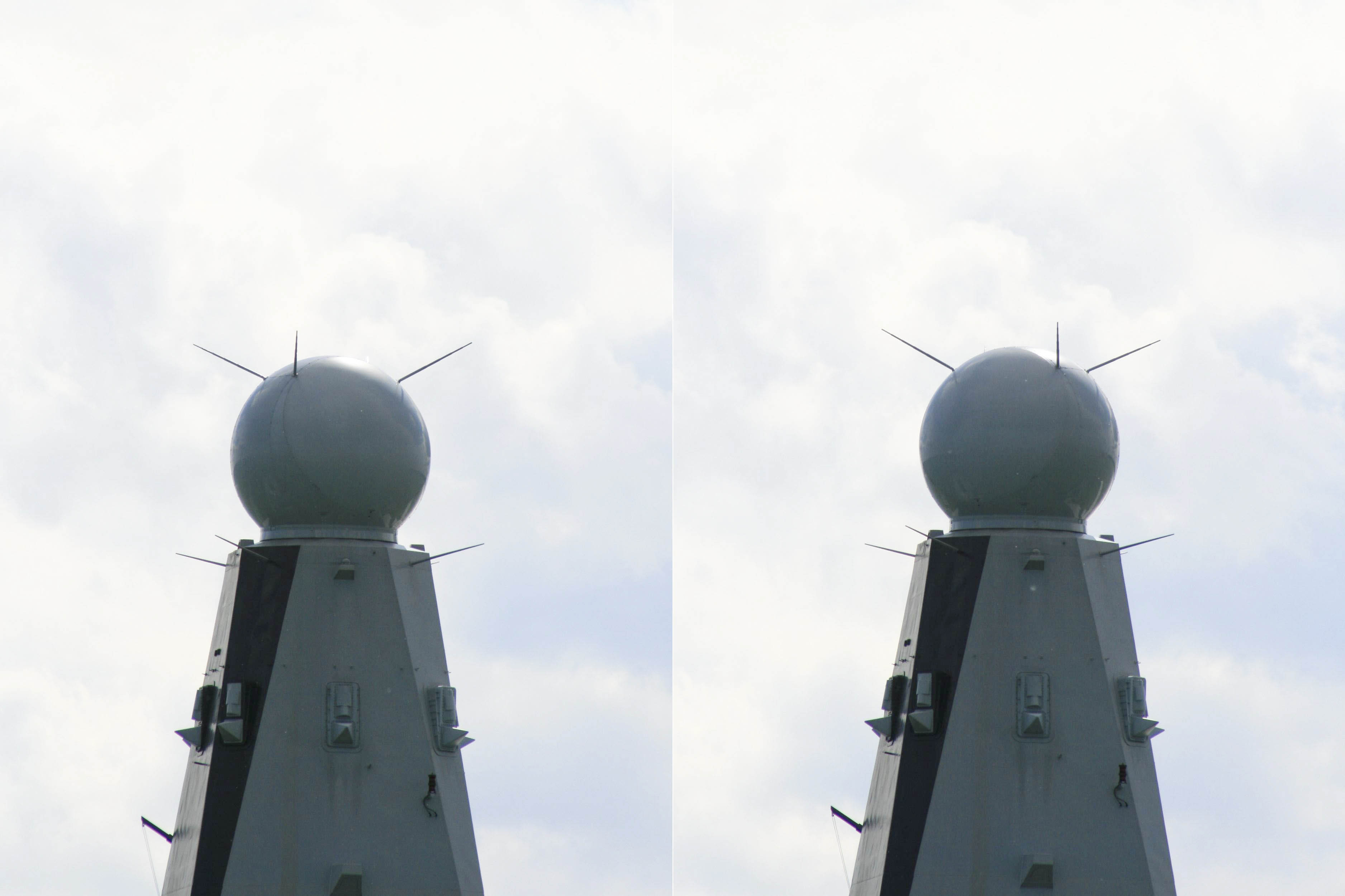 SAMPSON multi-function AESA battle management radar antenna mounted aboard Royal Navy Type 45 air-defence destroyer HMS Dragon (D35) inbound to Portsmouth Naval Base, UK. This composite of two photographs taken less than one second apart shows the rotation of the back-to-back mounted, twin phased-array antennae incorporated into a single unit. The antenna has rotated approx 120° in approx 0.66 secs. Note that the unit is not actually a true globe; being wider across the face of the phrased-array scanner than between the faces. Image uploaded by me User:George.Hutchinson from a photograph taken by and supplied by Brian Burnell. Wikipedia editors are reminded that the copyright remains with the photographer, and that the terms of the Creative Commons licence; that allow editors to reuse this image apply to Wikipedia editors also, as they do to other re-users of this image. Breaches of the licence terms are not only unlawful, but are also antisocial, in that breaches discourage photographers from making their images freely available to everyone without payment. Wikipedia re-users are also reminded of the license terms that derivatives of this image should not imply that the adaptation is endorsed or approved by the author or copyright holder. Neither should derivatives be presented as the creation of the author or copyright holder, while clearly stating that the adaptation is a derivative of the original. Attribution online should be in this format Brian Burnell. On the printed page, a simpler form is acceptable - example: "Image: Brian Burnell". Non-Wikipedia users are requested to advise Brian Burnell of its use other than on Wikipedia.